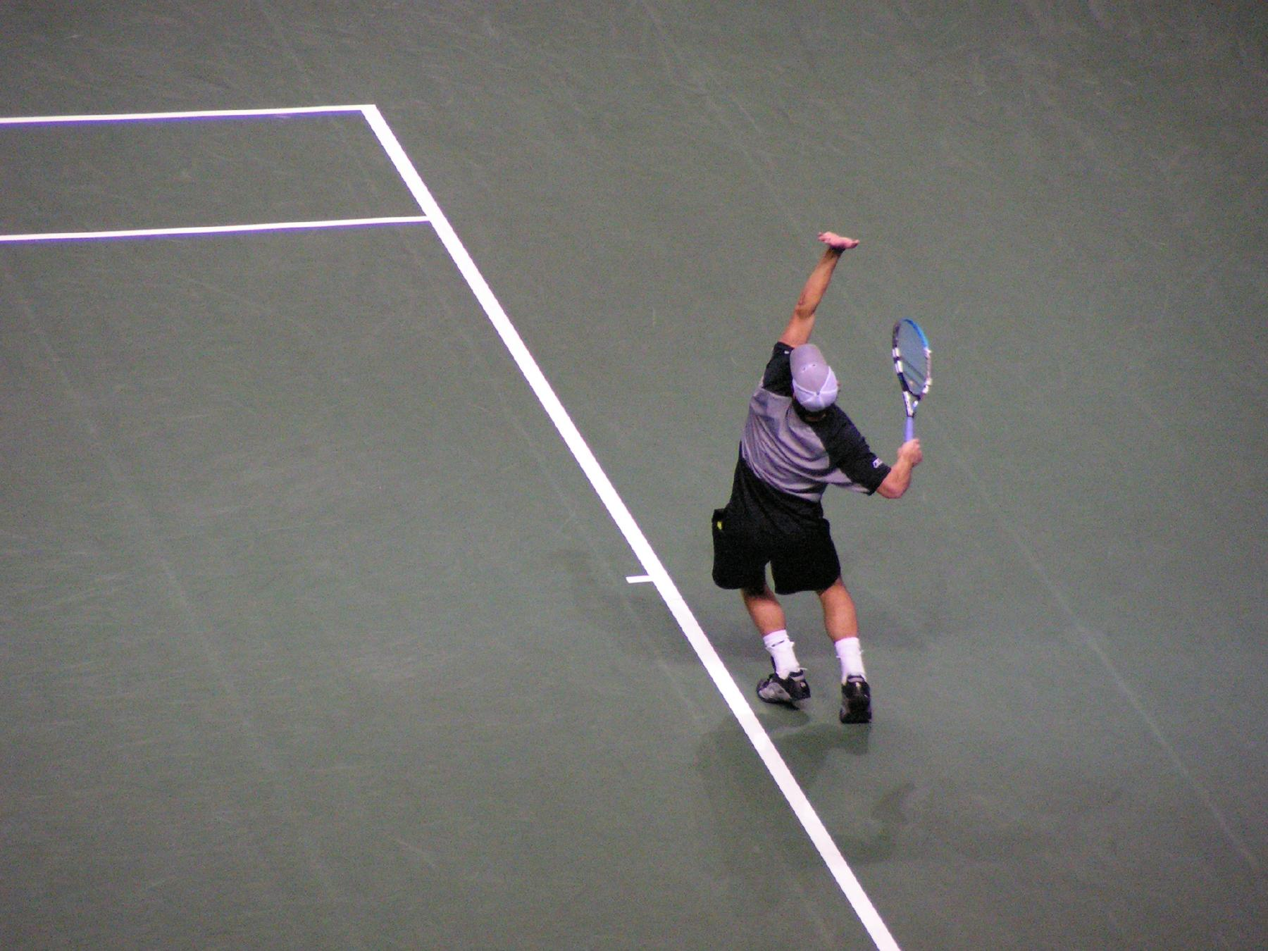 Andy Roddick at the SAP Open in 2005. SERVICE.